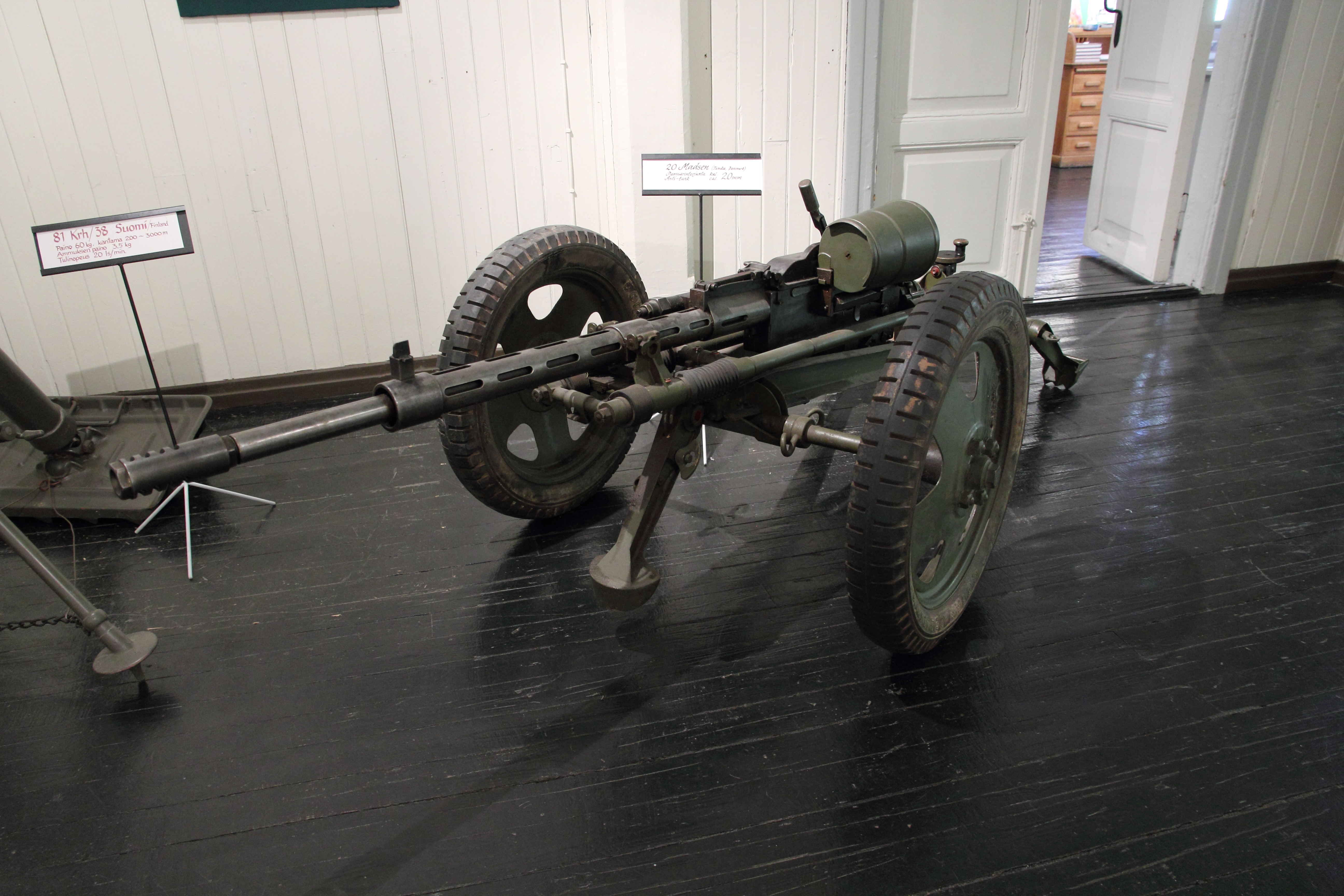 Danish 20 mm Madsen autocannon on low profile anti-tank carriage. Photographed in Mikkeli Infantry museum.